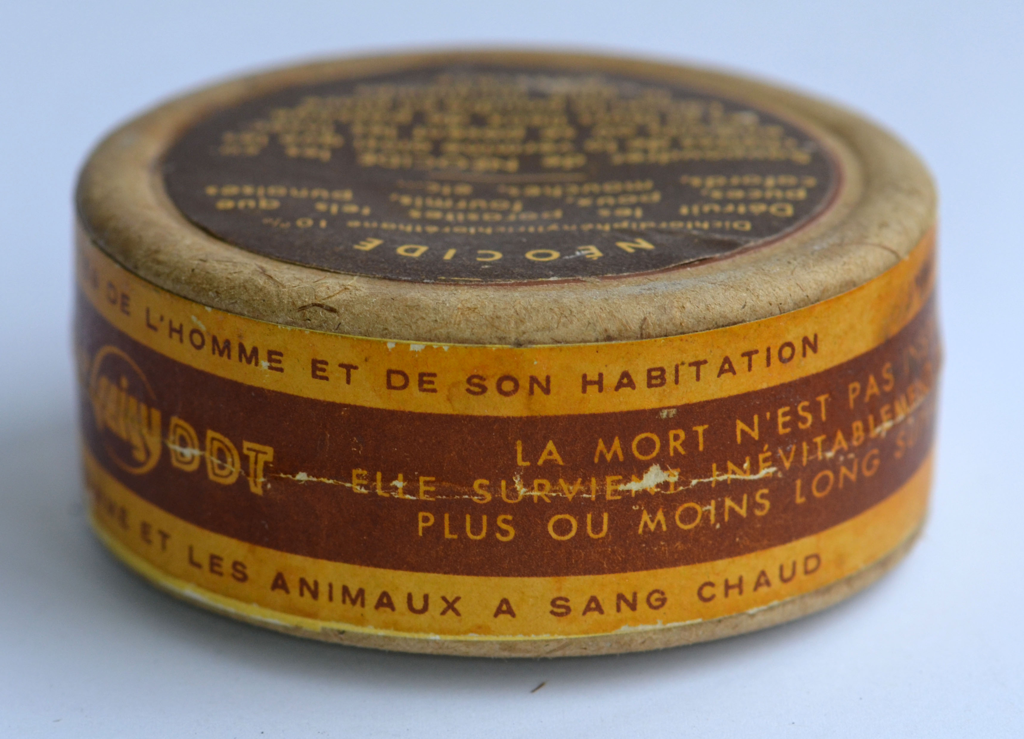 Néocide. Ciba Geigy DDT, 50 g Dichlordiphenyltrichlorethane 10% ; Destroys parasites such as fleas, lice, ants, bedbugs, cockroaches, flies, etc.. Néocide Sprinkle caches of vermin and the places where there are insects and their places of passage. Leave the powder in place as long as possible ; "estroy the parasites of man and his dwelling"; "eath is not instantaneous, it follows inevitably sooner or later ; French manufacturing ; harmless to humans and warm-blooded animals ; "sure and lasting effect. Odorless. Powder box. Box found during a sale (flea market) of ancient objects in Valenciennes (northern France), among dozens of others, from the stock of a forgotten old shop.